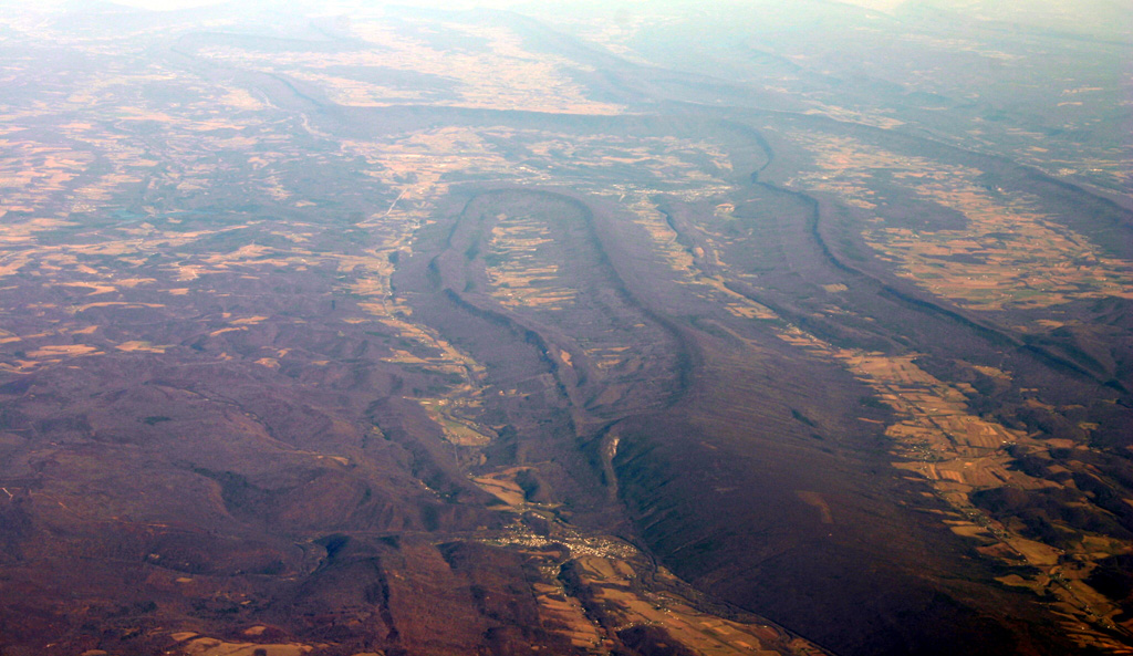 Oblique air photo of central Bedford County, Pennsylvania, facing north. Wills, Evitts, and Tussey Mountains are visible from center to right. Taken Dec. 2006 and uploaded by James Stuby. Contrast enhanced from original photo.